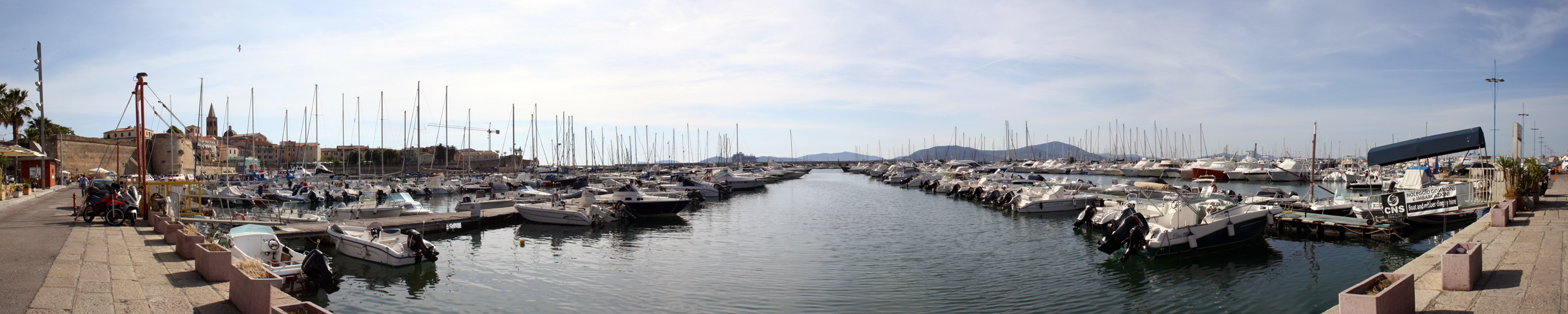 Alghero Harbour